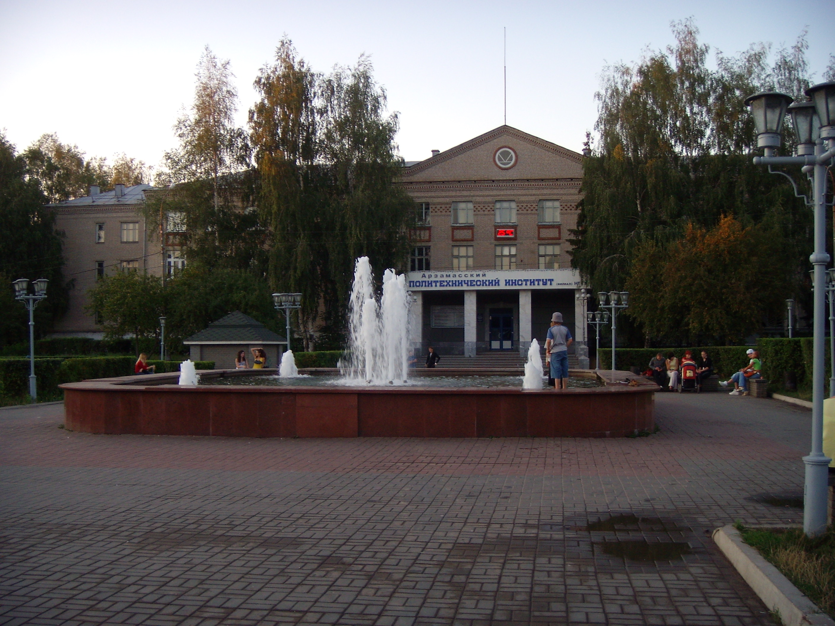 Arzamas Politekhincal Institute, Russia